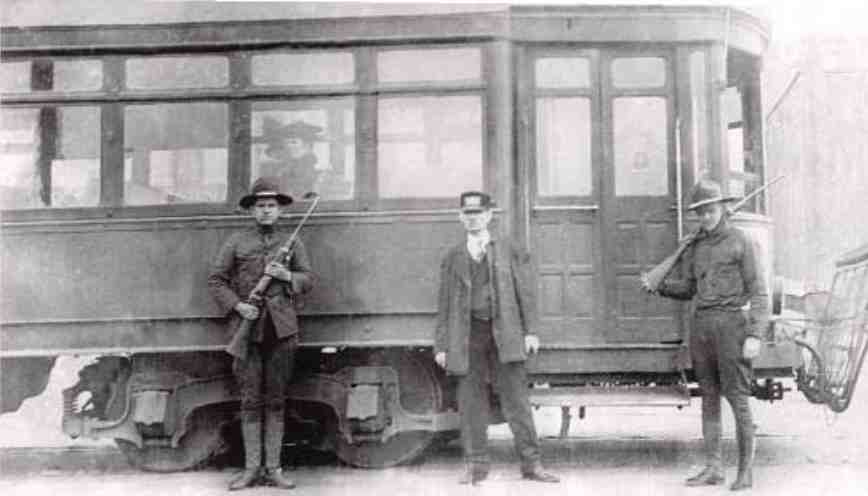 National Guard soldiers were called out to guard Kansas City streetcars in 1918 when motormen and conductors went on strike.